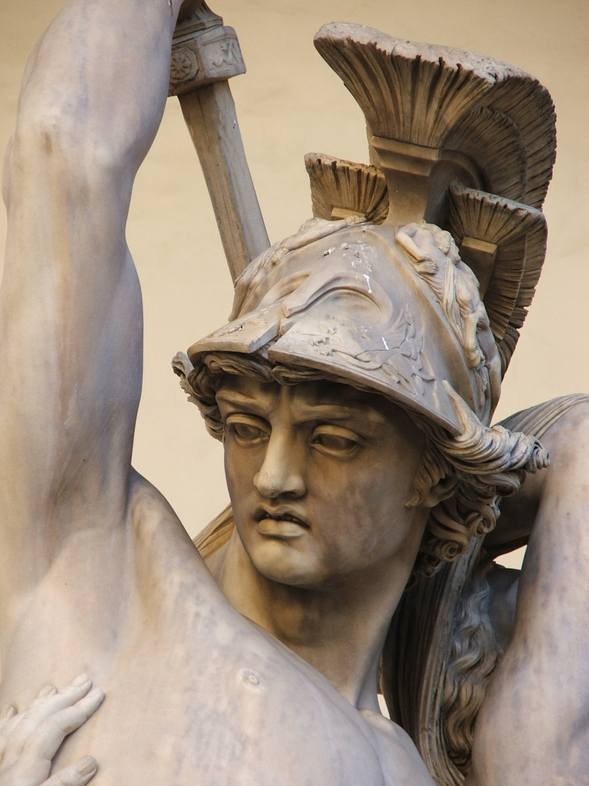 Rape of Polyxena, particular of the face of Neottolemo, Loggia dei Lanzi, Florence, Italy